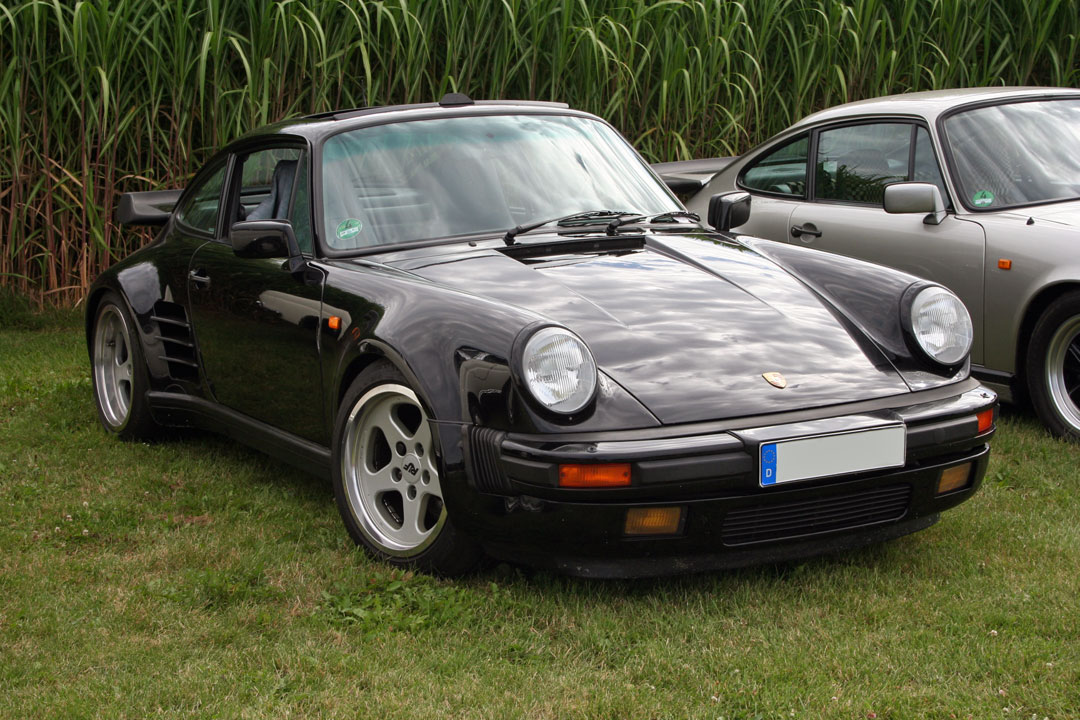 Porsche 911 Turbo with modified body at Classic Days Schloss Dyck 2012. View: right side